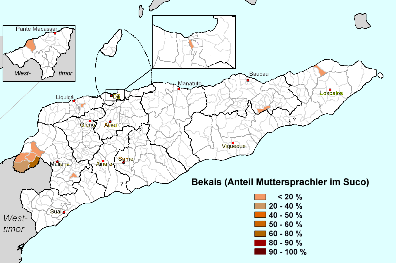 Percentage of people using Bekais as mother tongue in sucos of East Timor (Timor-Leste), according census 2010